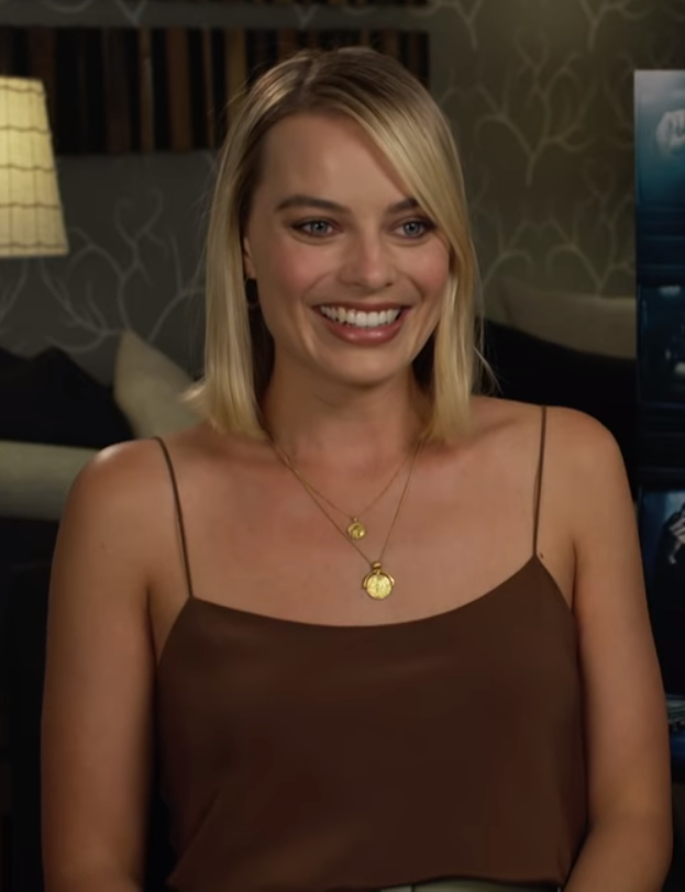 Margot Robbie reveals to MTV that she’s been watching in the pub watching all the England World Cup matches, that she thinks football is DEFINITELY coming home, and as just as obsessed with Love Island as you are. A woman after our own heart!